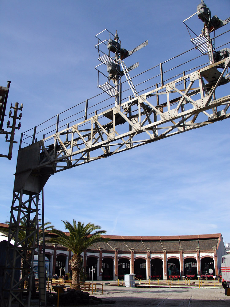 Old bridge signals of Barcelona-Francia Station at Museu del Ferrocarril de Catalunya, in Vilanova i la Geltrú (Barcelona)